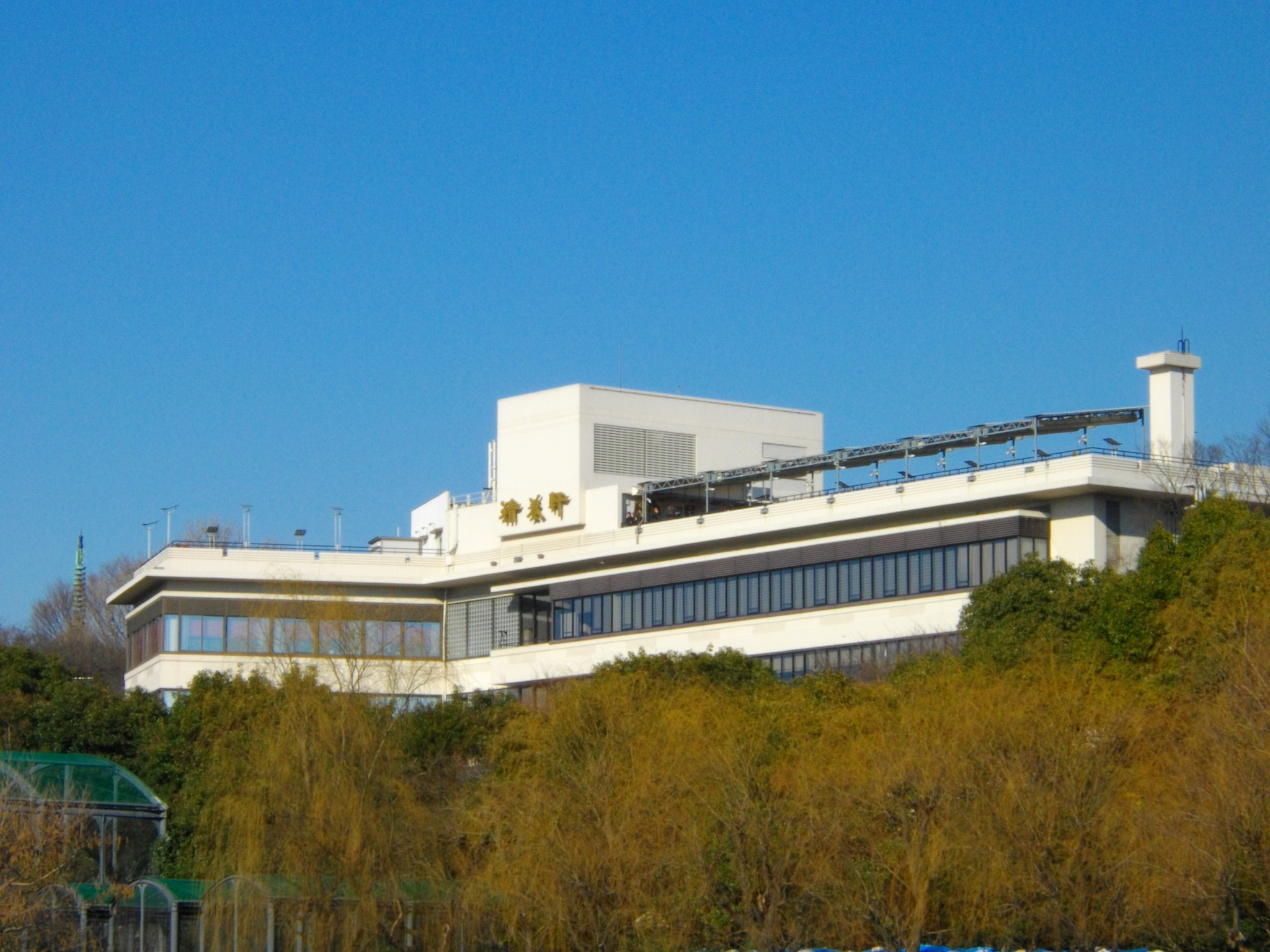 Ueno-Seiyoken Head Office